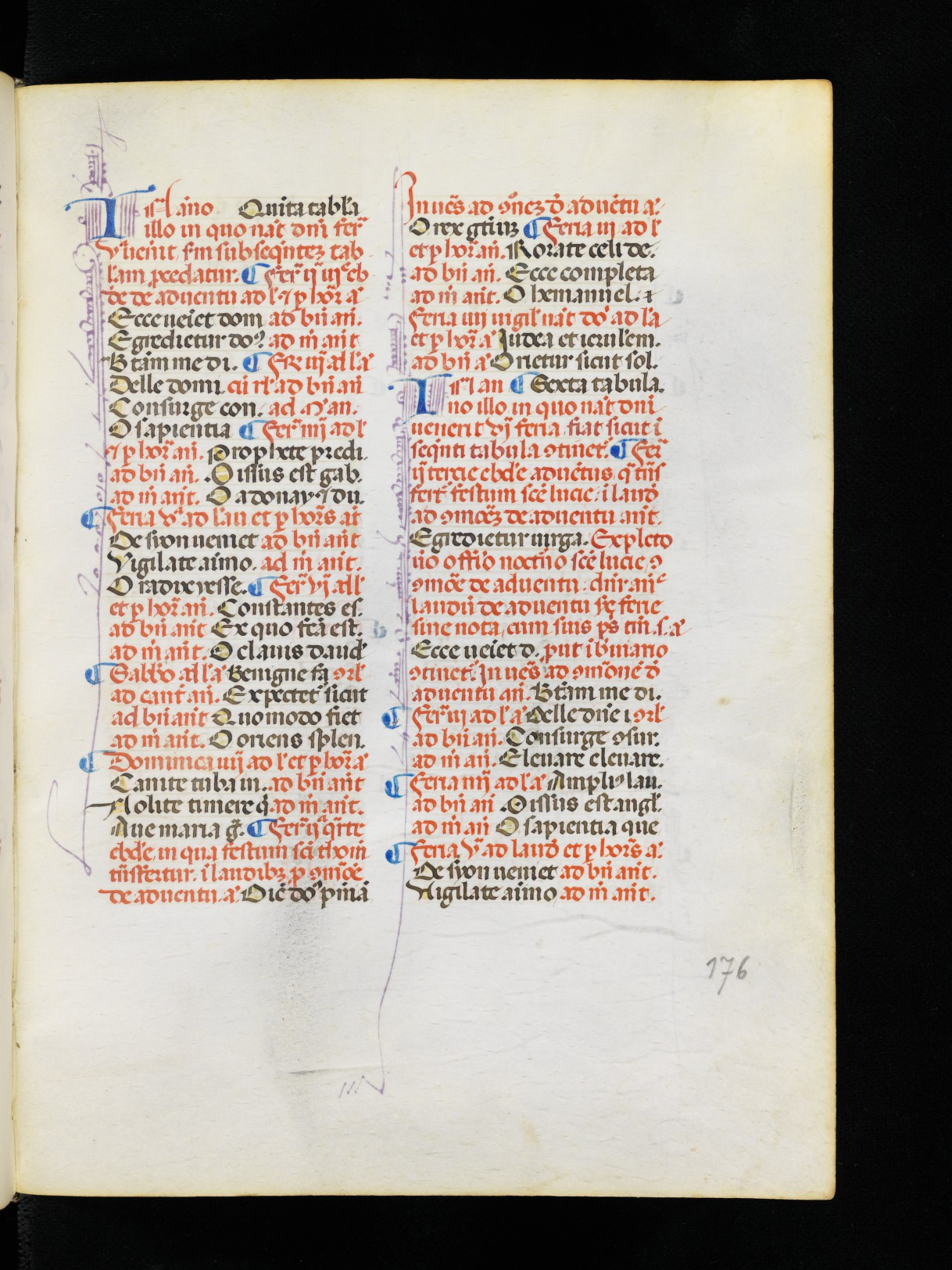 Solothurn, Zentralbibliothek / Cod. S 378 – Breviarium canonicorum regularium monasterii… / f. 176r Tables parisiennes.